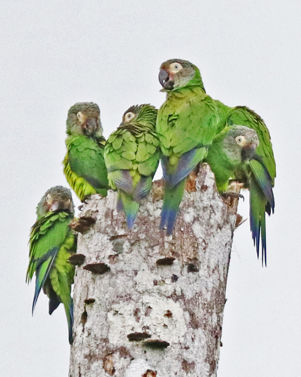 photo of six Dusky-headed Parakeets taken at San Jorge Sumaco Balo near Loreto, Ecuador